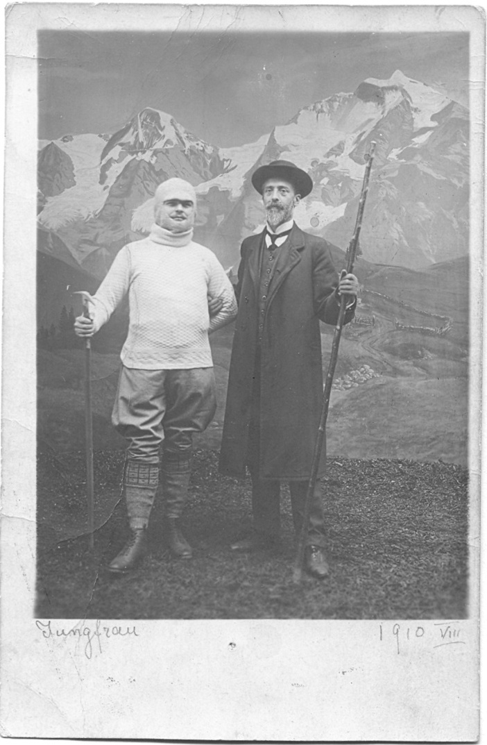 Victor Adler and Yanko Sakazov in the foot of Mount Jungfrau, Switzerland